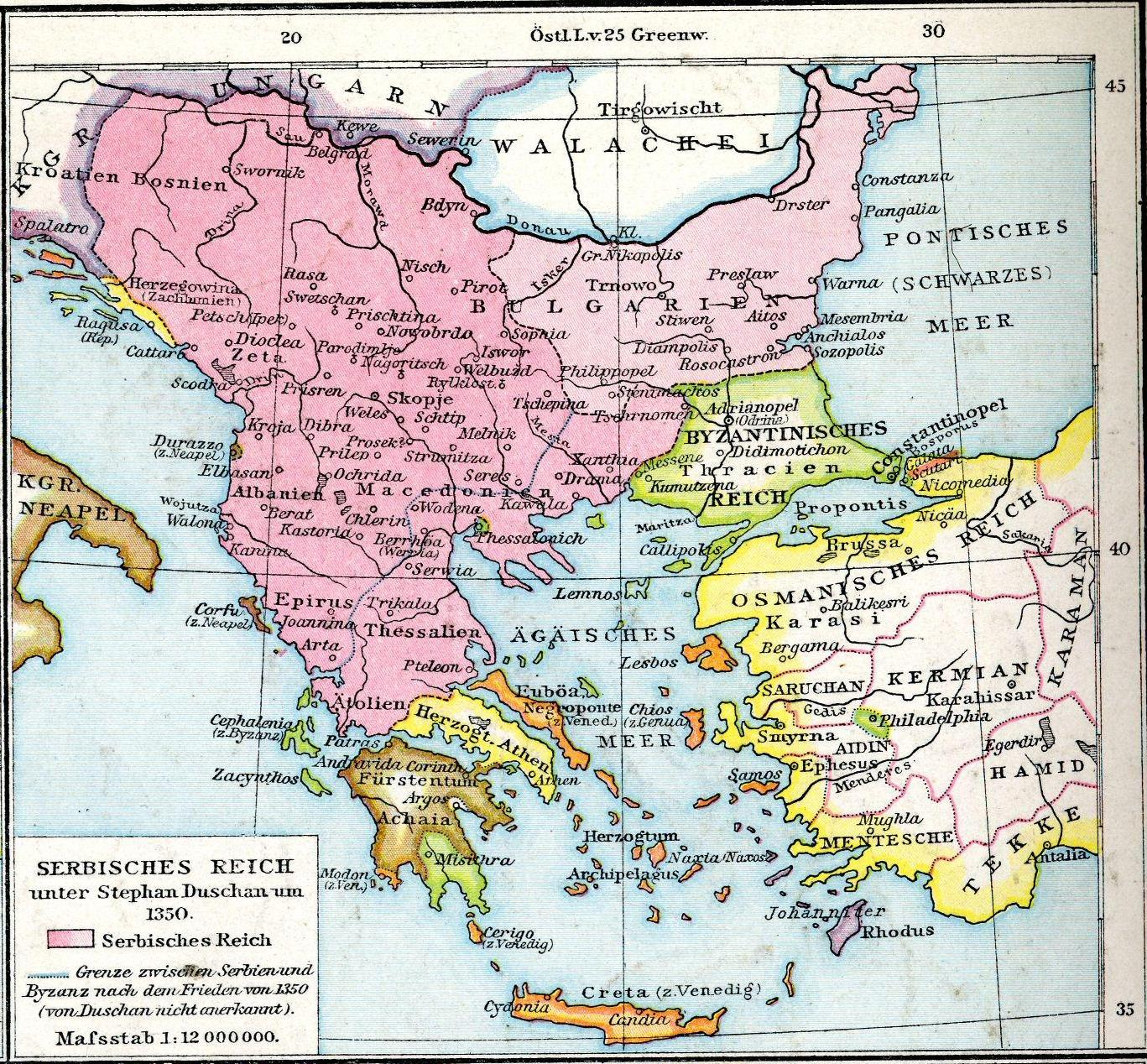 Map from late XIX century, representing a view about boundaries of Serbian empire during Stefan Dušan, about 1350. (Modern historiography has a stance that borders of Serbian empire were somewhat different. For the view of modern historiography, please see this map.)